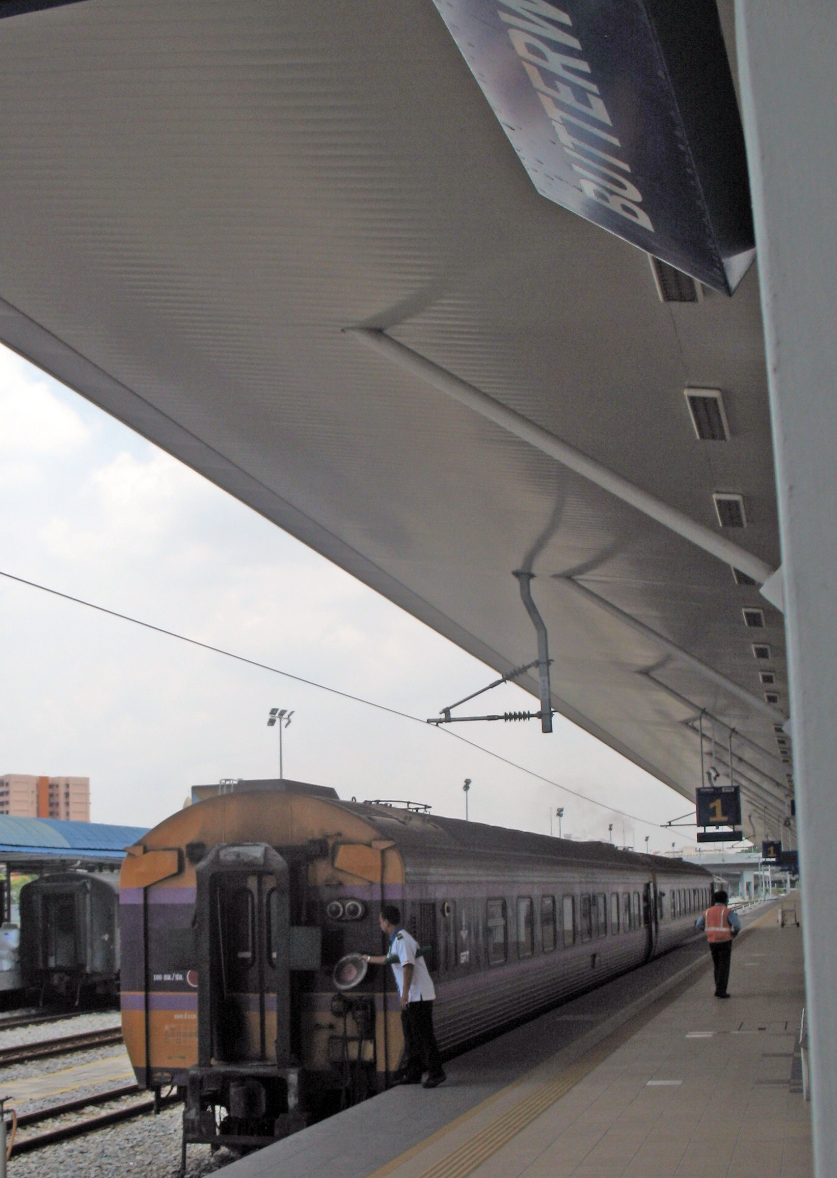 Last stop at the Butterworth Railway Station for the Bangkok to Butterworth train